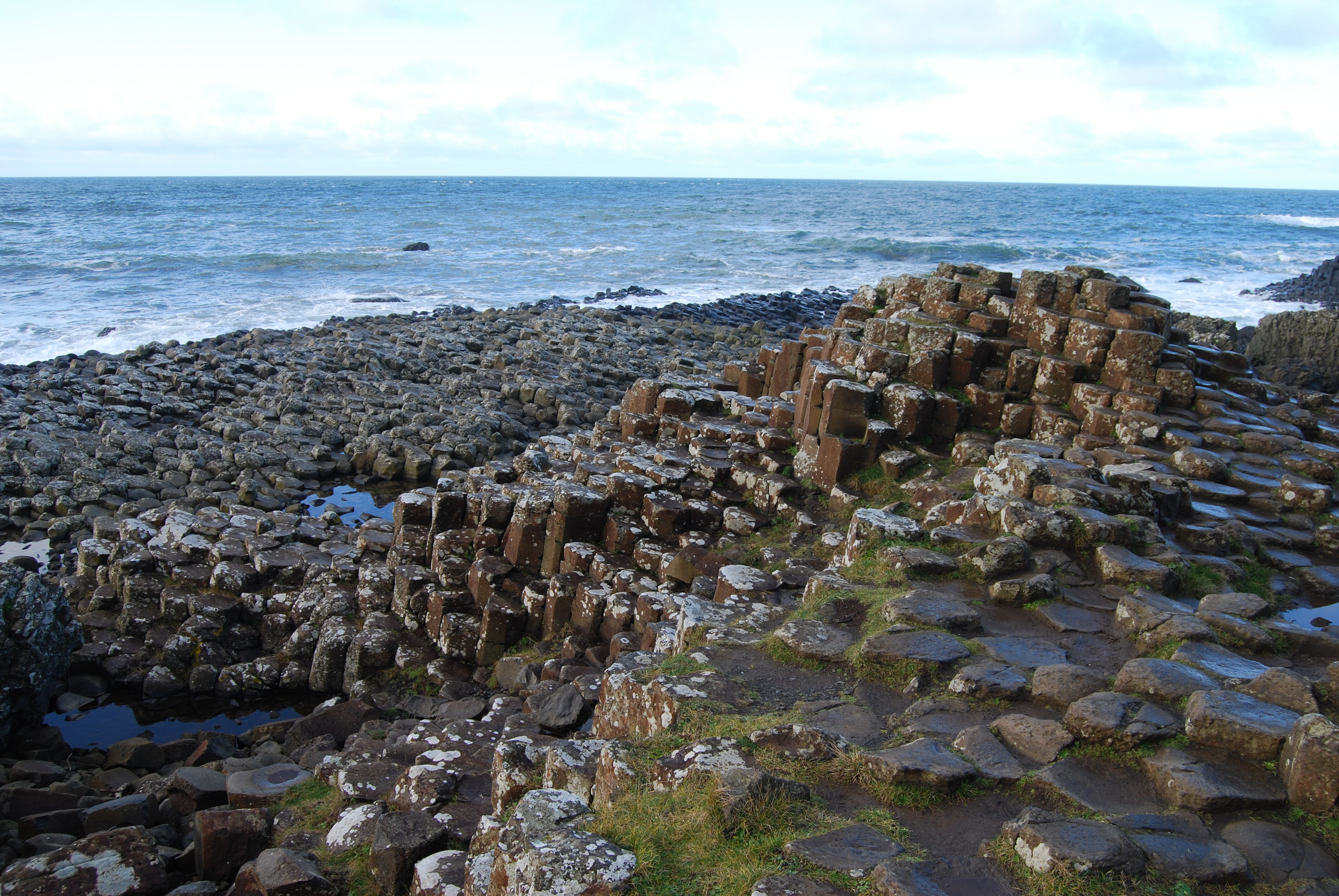 Giant's Causeway, Northern Ireland. Hexagonal basalts.